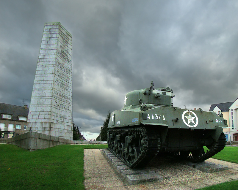 Avranches, Manche, Normandie, France. Patton Square. The inscription on the monument translates into the following: From the 31st of July to the 10th of August 1944, making a breakthrough into Avranches in the roaring of its tanks moving toward victory and the liberation of France, the glorious American army of General Patton passed this crossroads.